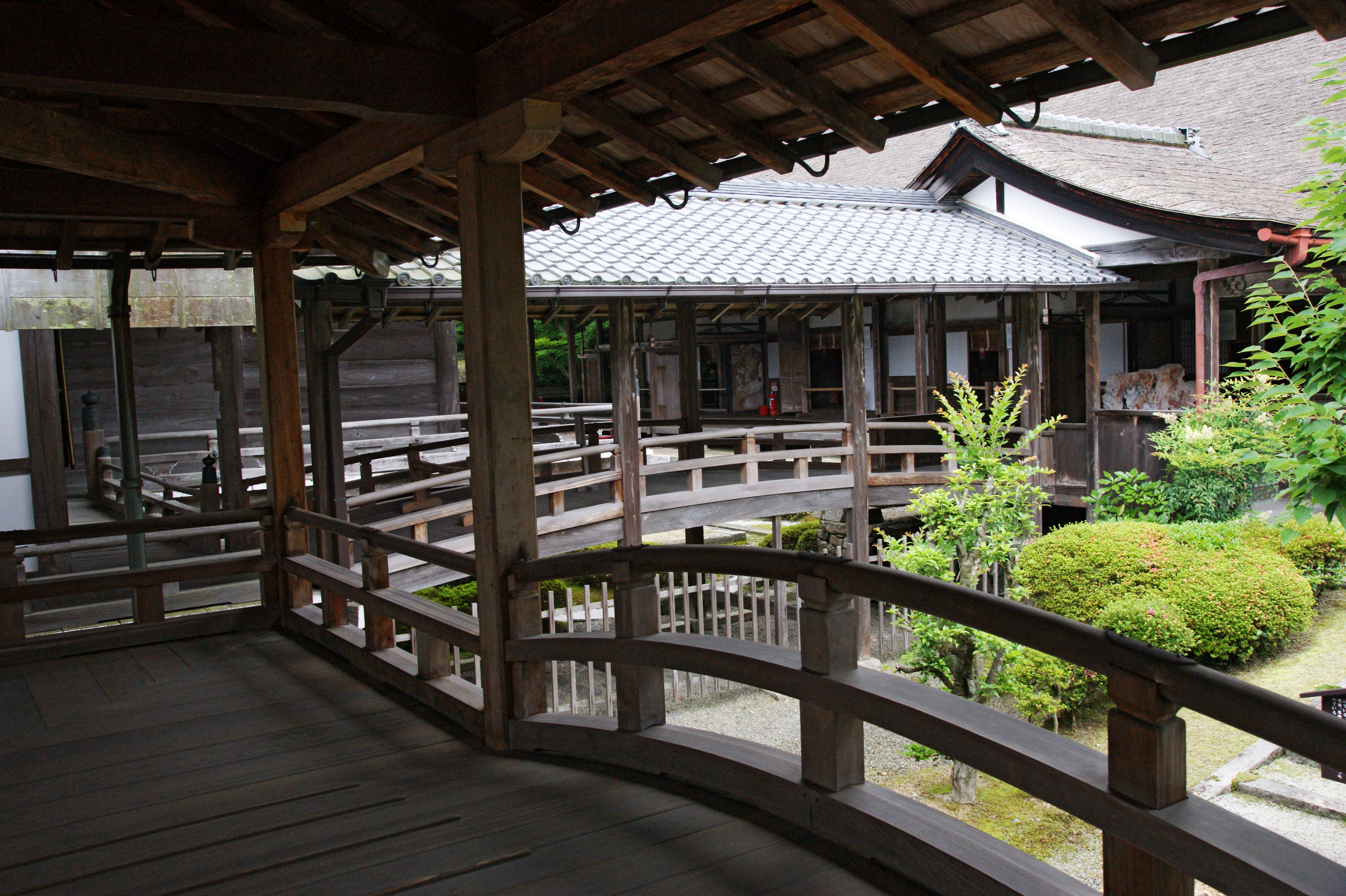 Saikyoji in Sakamoto, Otsu, Shiga prefecture, Japan